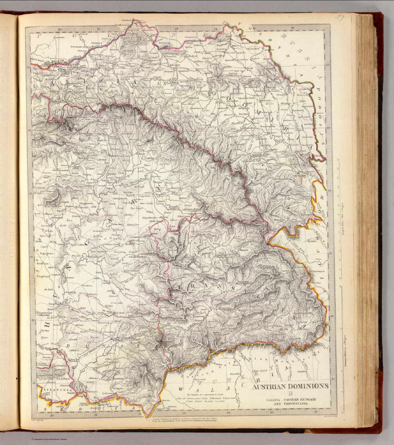 Austrian Dominions:Galicia,Eastern- Hungary, Transylvania